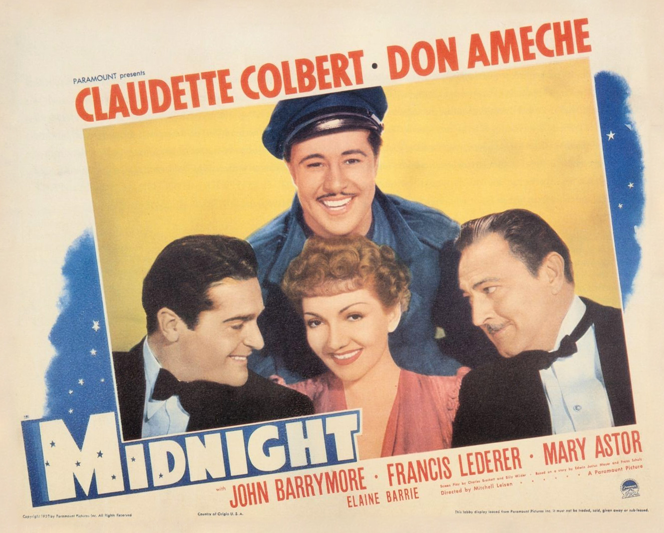 Lobby card for the 1939 film Midnight.